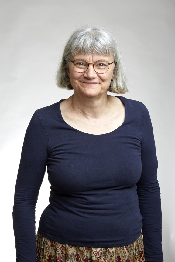 Catherine Rosemary Martin is a Professor of Plant Sciences at the University of East Anglia and project leader at the John Innes Centre Attribution: The Royal Society